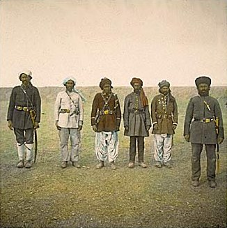 Mohamed Yusef and the Ameer's Guard at Chaman. (Jackson's own caption) Magic lantern image from Afghanistan, on the border with Baluchistan